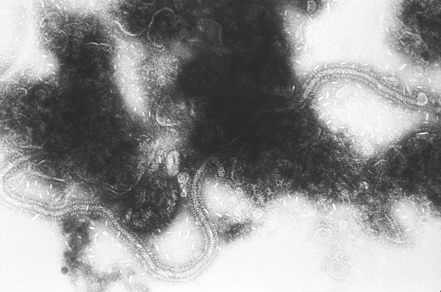 This electron micrograph depicts the Respiratory Syncytial Virus (RSV) pathogen. RSV is a negative-sense, enveloped RNA virus. The virion is variable in shape and size, with a diameter ranging between 120 and 300 nm, and is unstable in the environment surviving only a few hours on environmental surfaces.